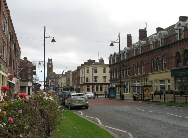 Duke Street, Barrow-in-Furness, Cumbria, England, UK